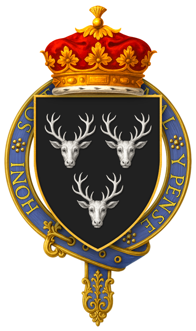 Shield of arms of Spencer Cavendish, 8th Duke of Devonshire, KG, GCVO, PC, PC (Ireland), FRS